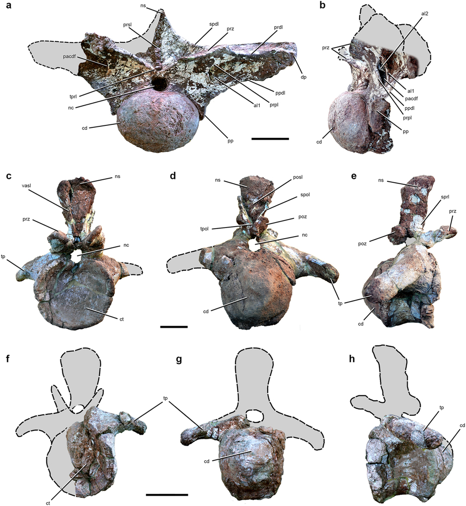 Figure 2: Vertebral morphology of Notocolossus gonzalezparejasi. Anterior (second or third) dorsal vertebra of the holotype (UNCUYO-LD 301) in (a) anterior and (b) left anterolateral views. Anterior caudal vertebra of the holotype (UNCUYO-LD 301) in (c) anterior, (d) posterior, and (e) right lateral views. Anterior caudal vertebra of the referred specimen (UNCUYO-LD 302) in (f) anterior, (g) posterior, and (h) left lateral views. Abbreviations: al1, ‘accessory’ lamina 1; al2, ‘accessory’ lamina 2; cd, condyle; ct, cotyle; dp, diapophysis; nc, neural canal; ns, neural spine; pacdf, parapophyseal centrodiapophyseal fossa; posl, postspinal lamina; poz, postzygapophysis; pp, parapophysis; ppdl, paradiapophyseal lamina; prdl, prezygodiapophyseal lamina; prpl, prezygoparapophyseal lamina; prsl, prespinal lamina; prz, prezygapophysis; spdl, spinodiapophyseal lamina; spol, spinopostzygapophyseal lamina; sprl, spinoprezygapophyseal lamina; tp, transverse process; tpol, intrapostzygapophyseal lamina; tprl, intraprezygapophyseal lamina; vasl, ‘V-shaped’ anterior spinal lamina. Scale bars, 20 cm (a,b), 10 cm (c–h).